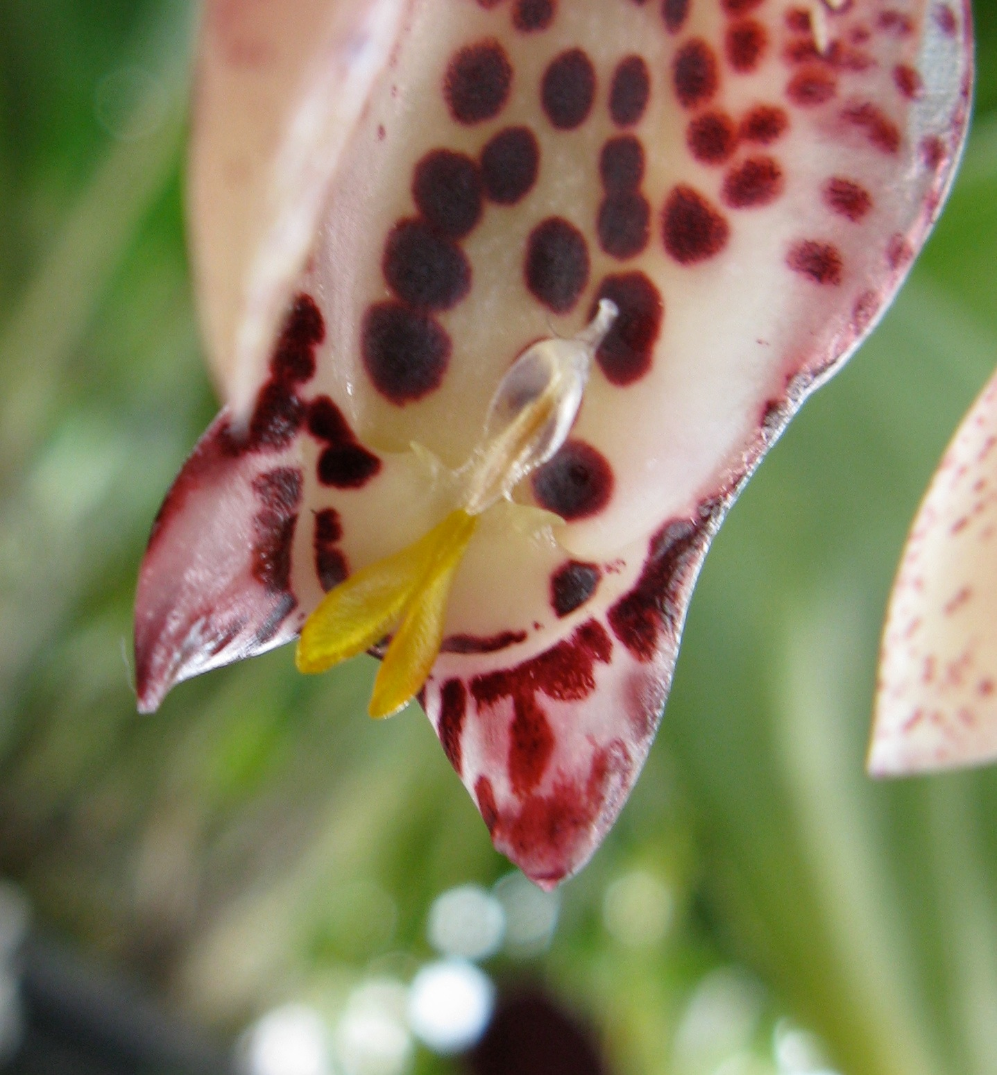 Photographed at the Huntington gardens, Los Angeles.